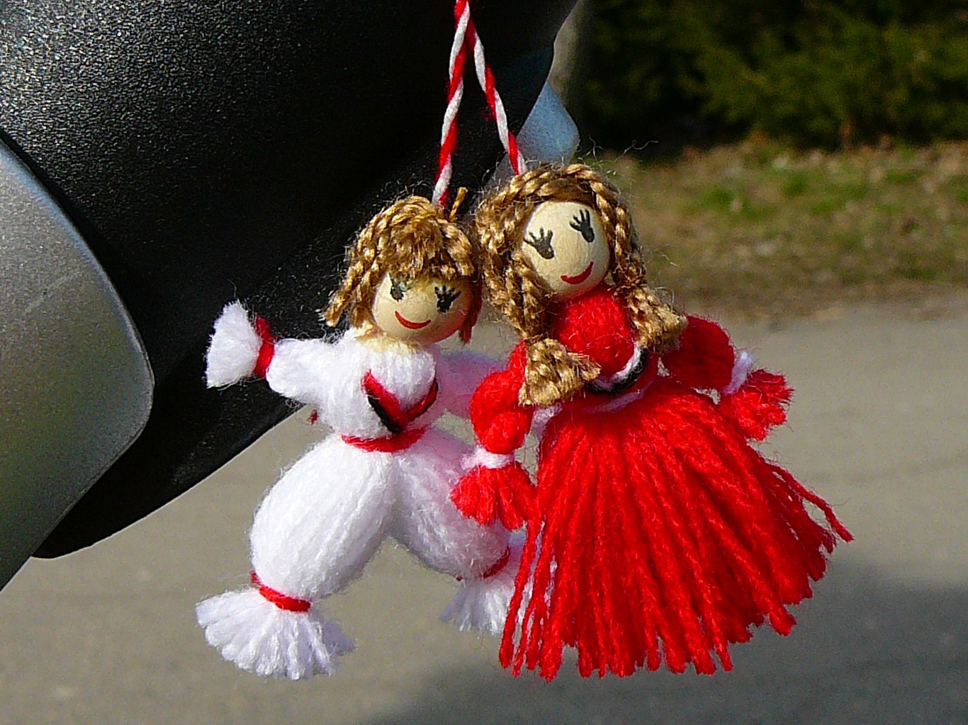 Martenitsa